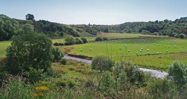 Bervie Water with sheep grazing in valley field